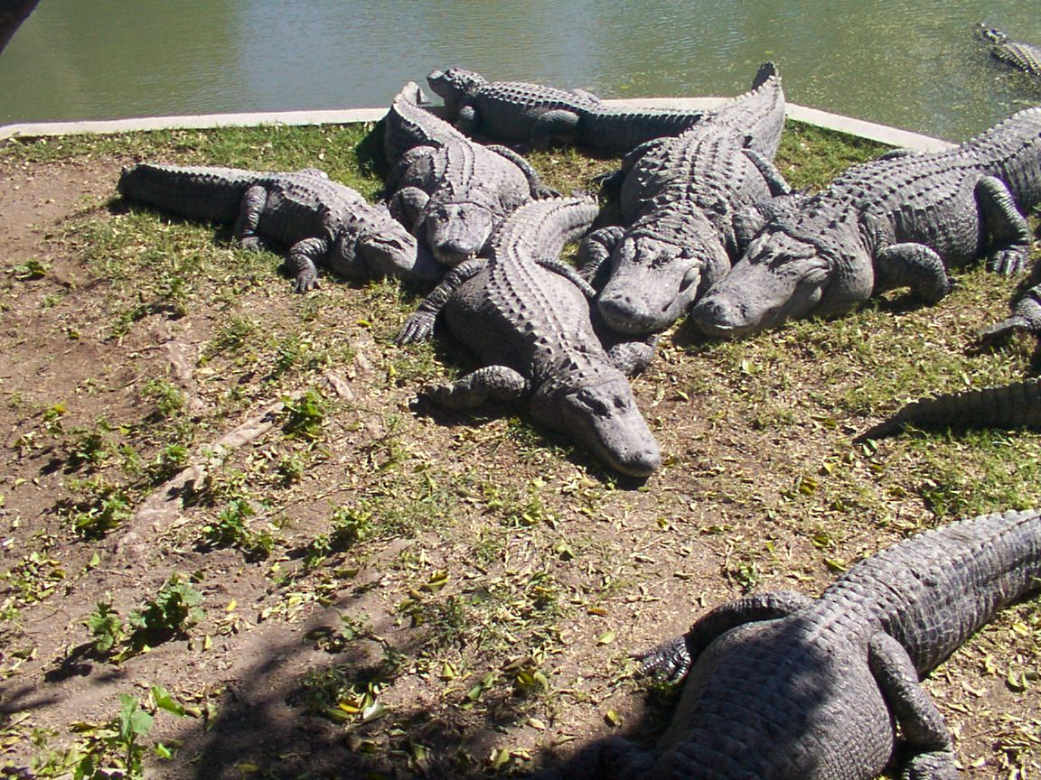 Alligators at Hamat gader